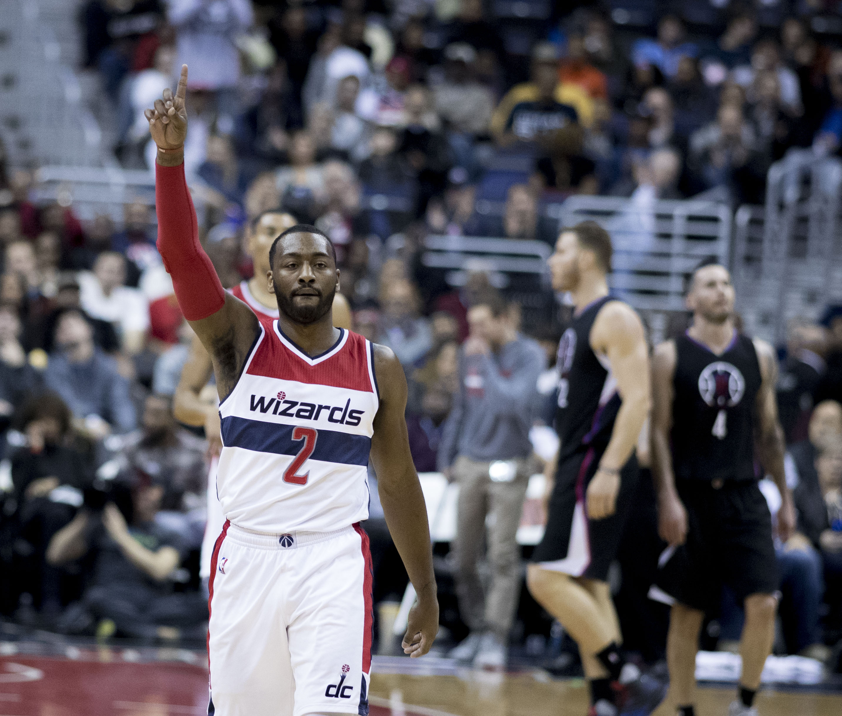 John Wall celebrates victory over the Los Angeles Clippers in 2016.